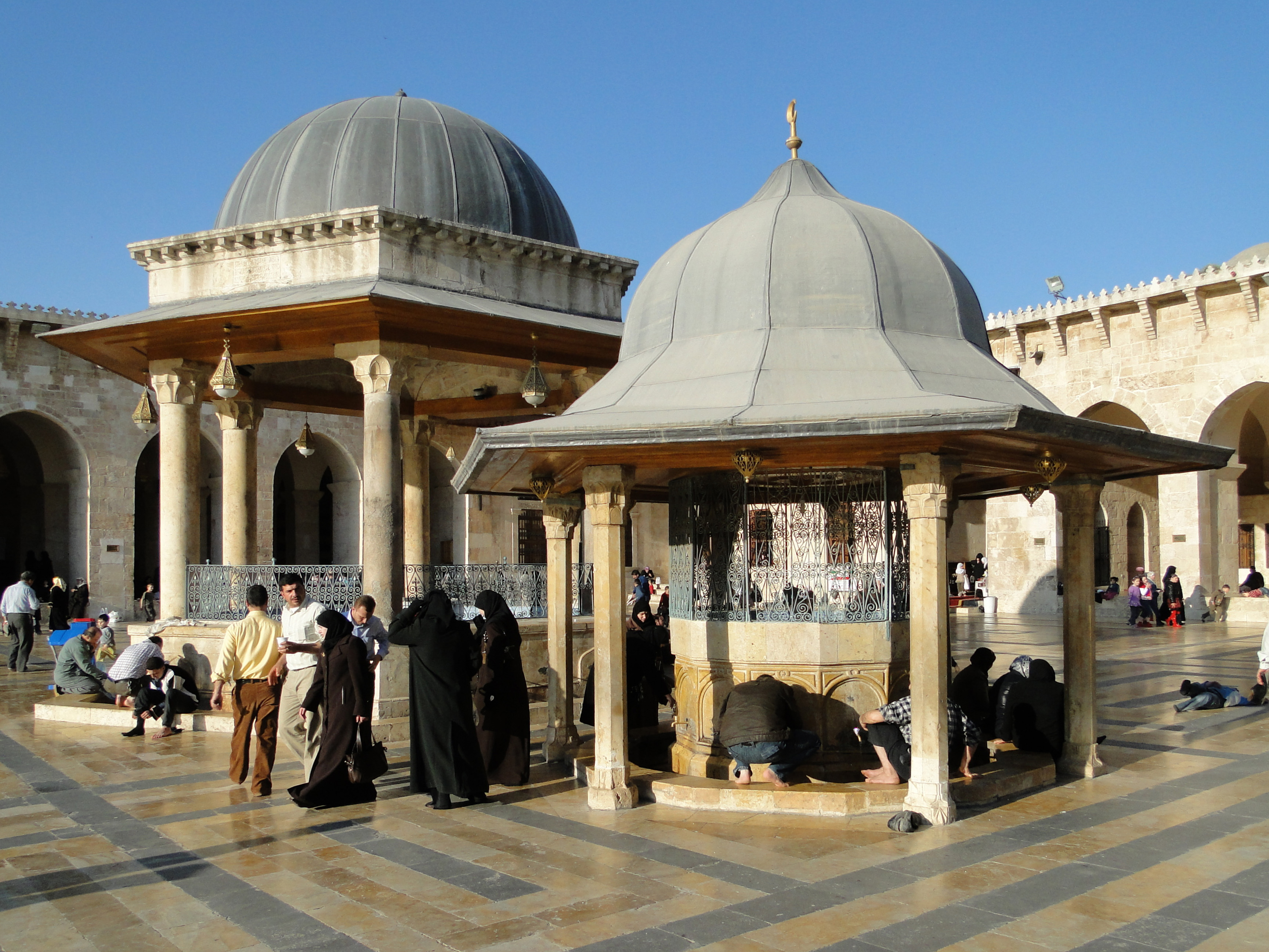 Şadirvan ablution fountains in the courtyard of the Great Mosque of Aleppo, Syria